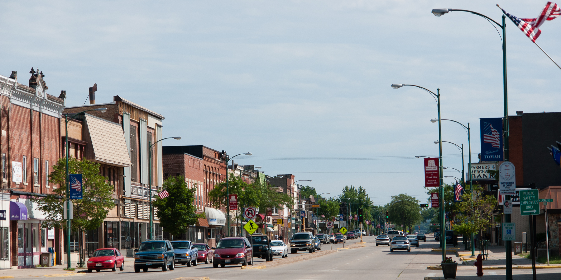 Downtown Tomah, looking south on Superior Avenue (east side of street)